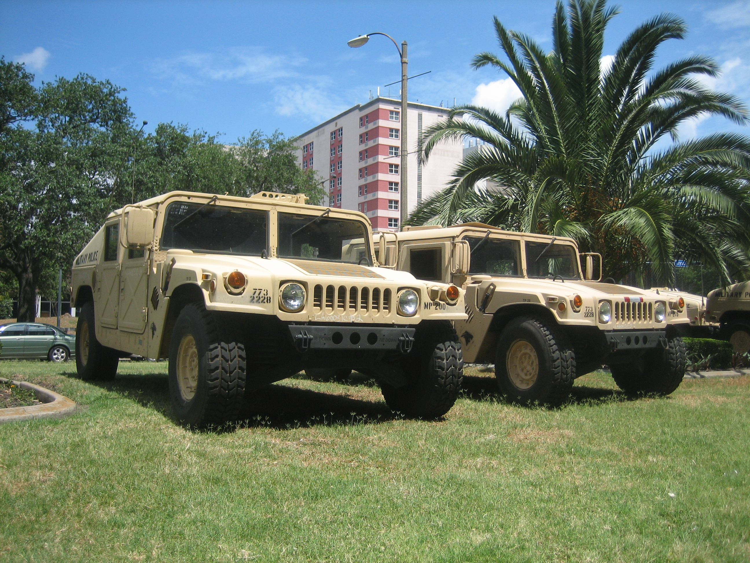 Humvees of National Gucc bbjvard on neutral ground in front of City Hall, New Orleans.